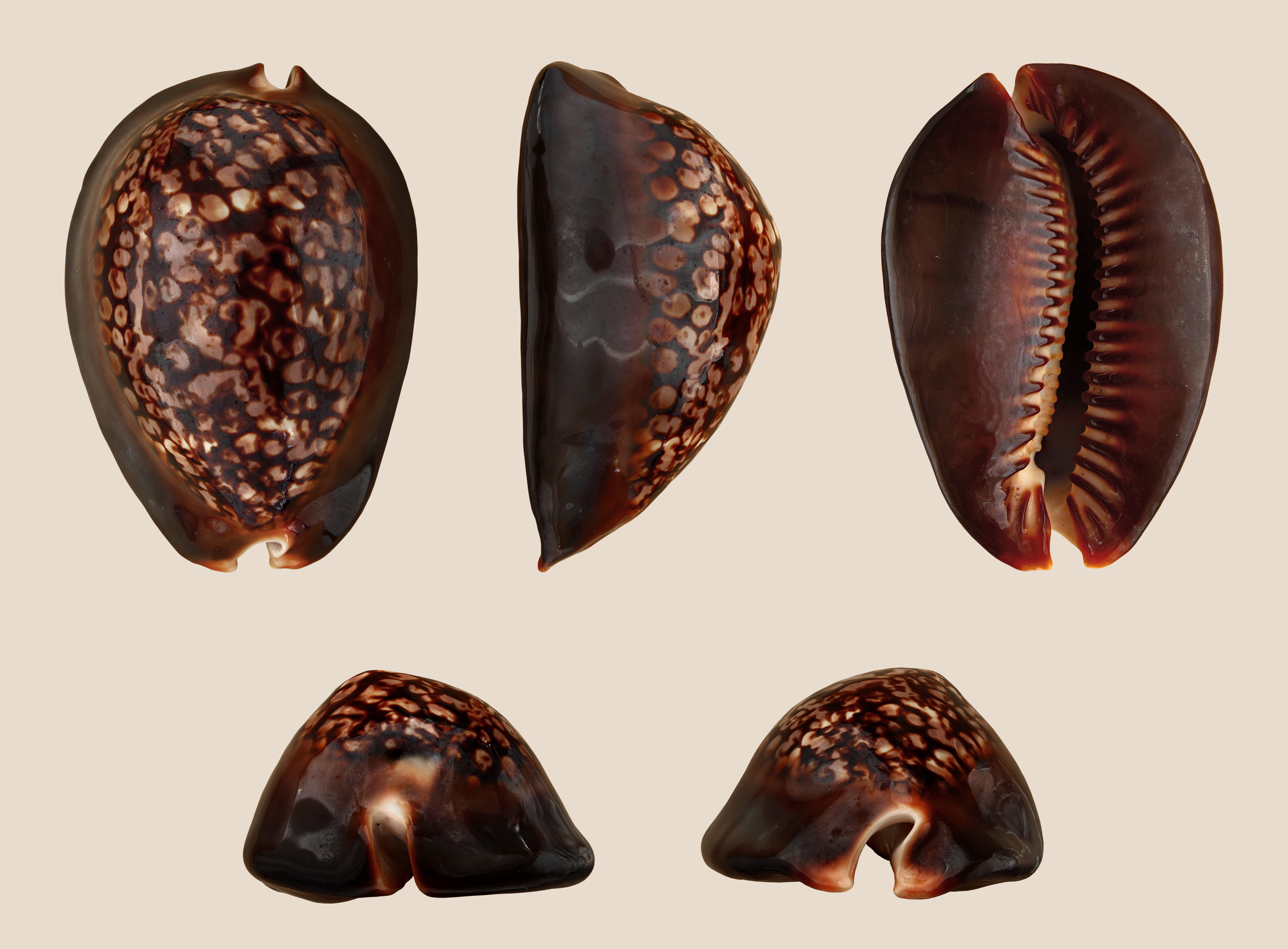 Chocolate Cowry; Length 8.5 cm; Originating from Indo-Pacific; Shell of own collection, therefore not geocoded. Dorsal, lateral (right side), ventral, back, and front view.